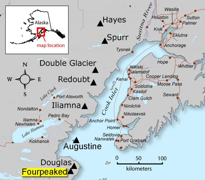 AVO map shows the location of Fourpeaked volcano